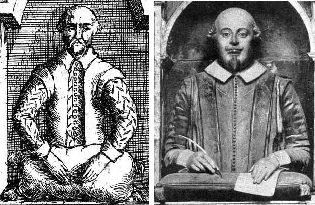 This is a composite image of Shakespeare's funerary monument and its depiction published in William Dugdale's Antiquities of Warwickshire (1656) and in Rev. George Arbuthnot’s A guide to the collegiate church of Stratford-on-Avon (4th ed., 1904)